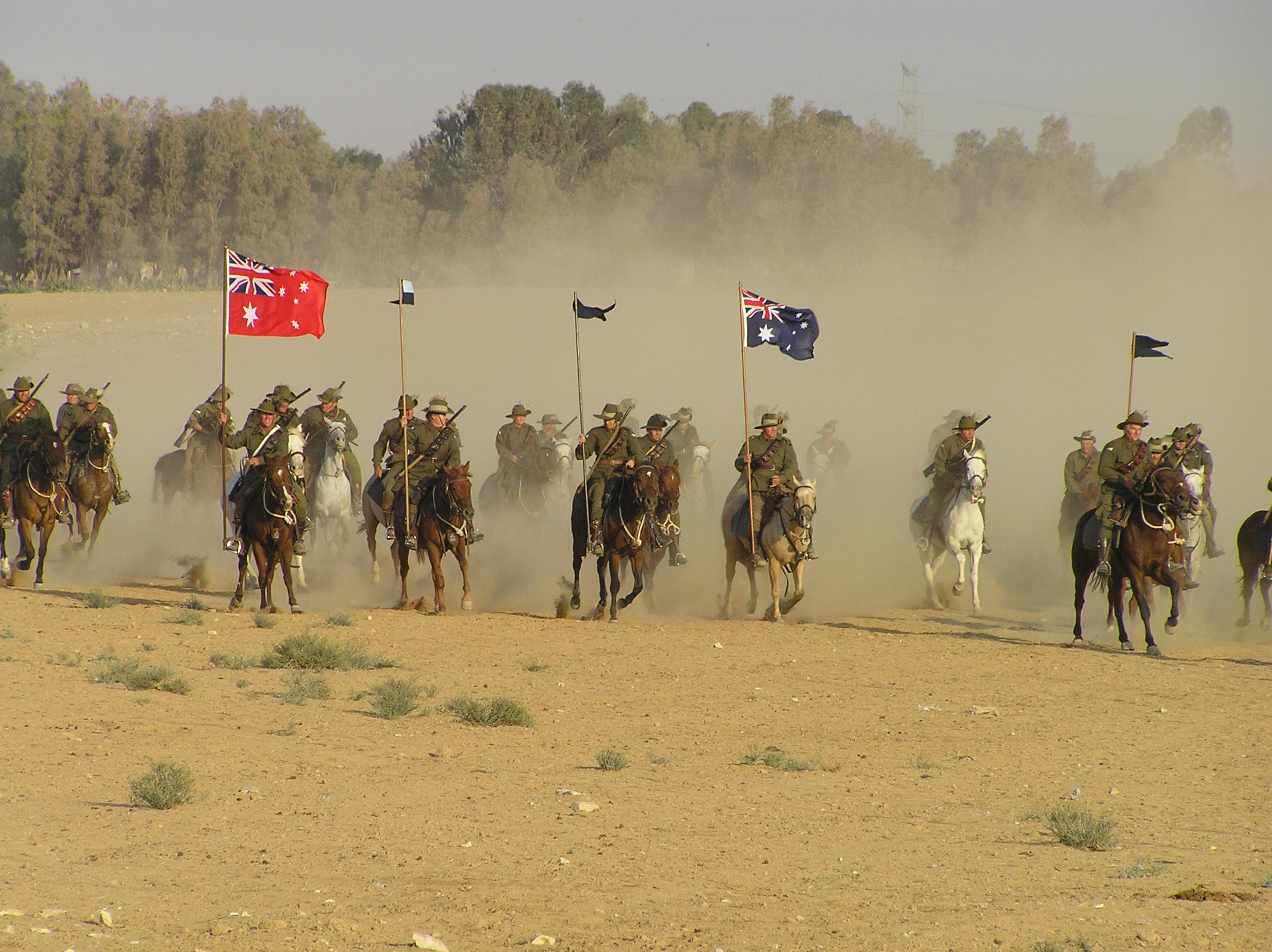 90th anniversary of the WW1 Battle of Beersheba: Re-enactment of the Australian Lighthorse charge